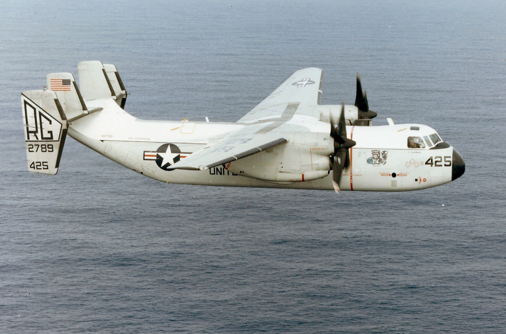 A U.S. Navy Grumman C-2A-05-GR Greyhound (BuNo 152789) from Fleet Tactical Support Squadron VRC-50 Foo Dogs assigned to the aircraft carrier USS Enterprise (CVAN-65) in flight. VRC-50 was commissioned on 1 October 1966. The C-2A 152789, the 6th production Greyhound, was delivered to the squadron on 12 December 1966.